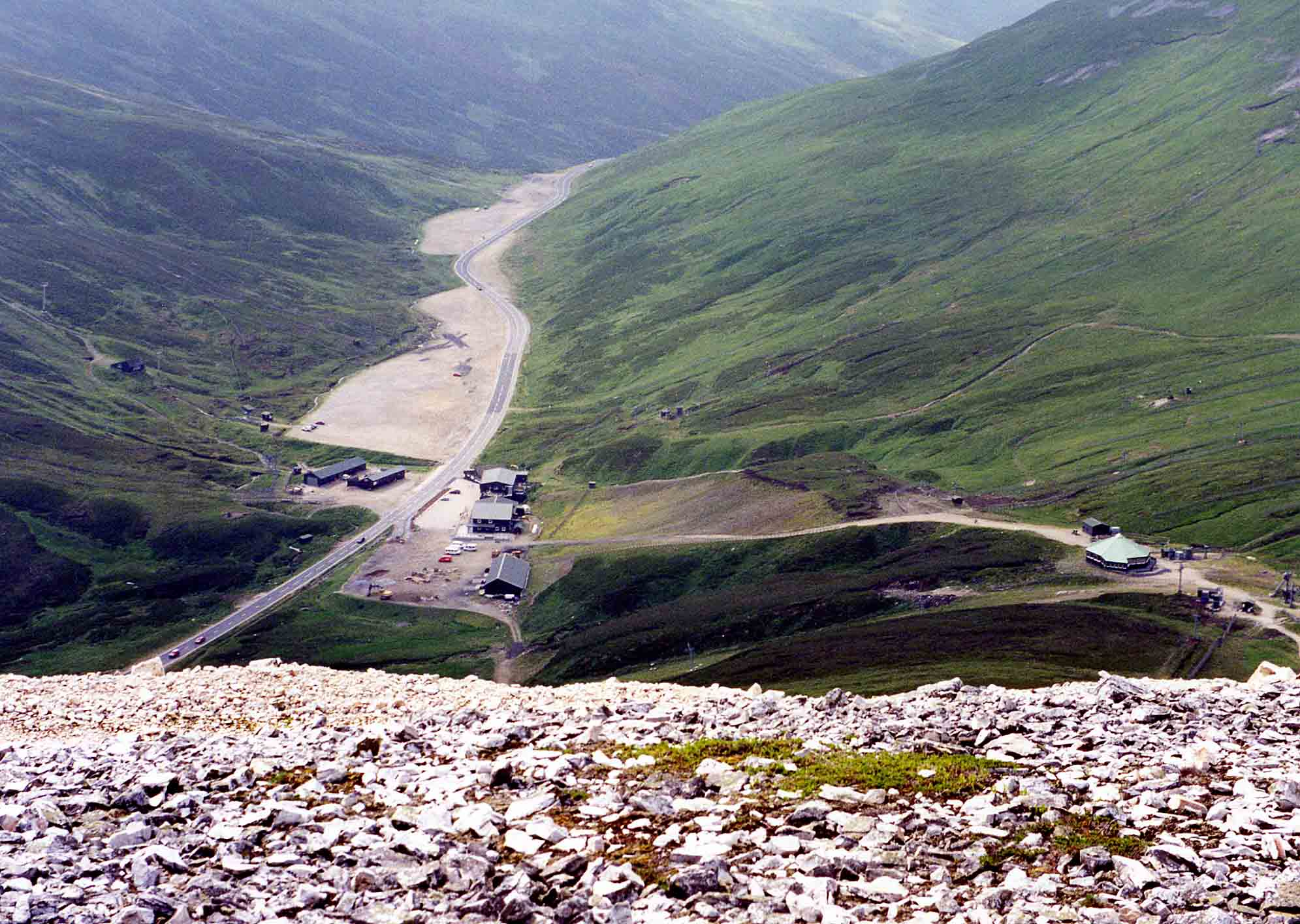 Personal picture taken by Mick Knapton